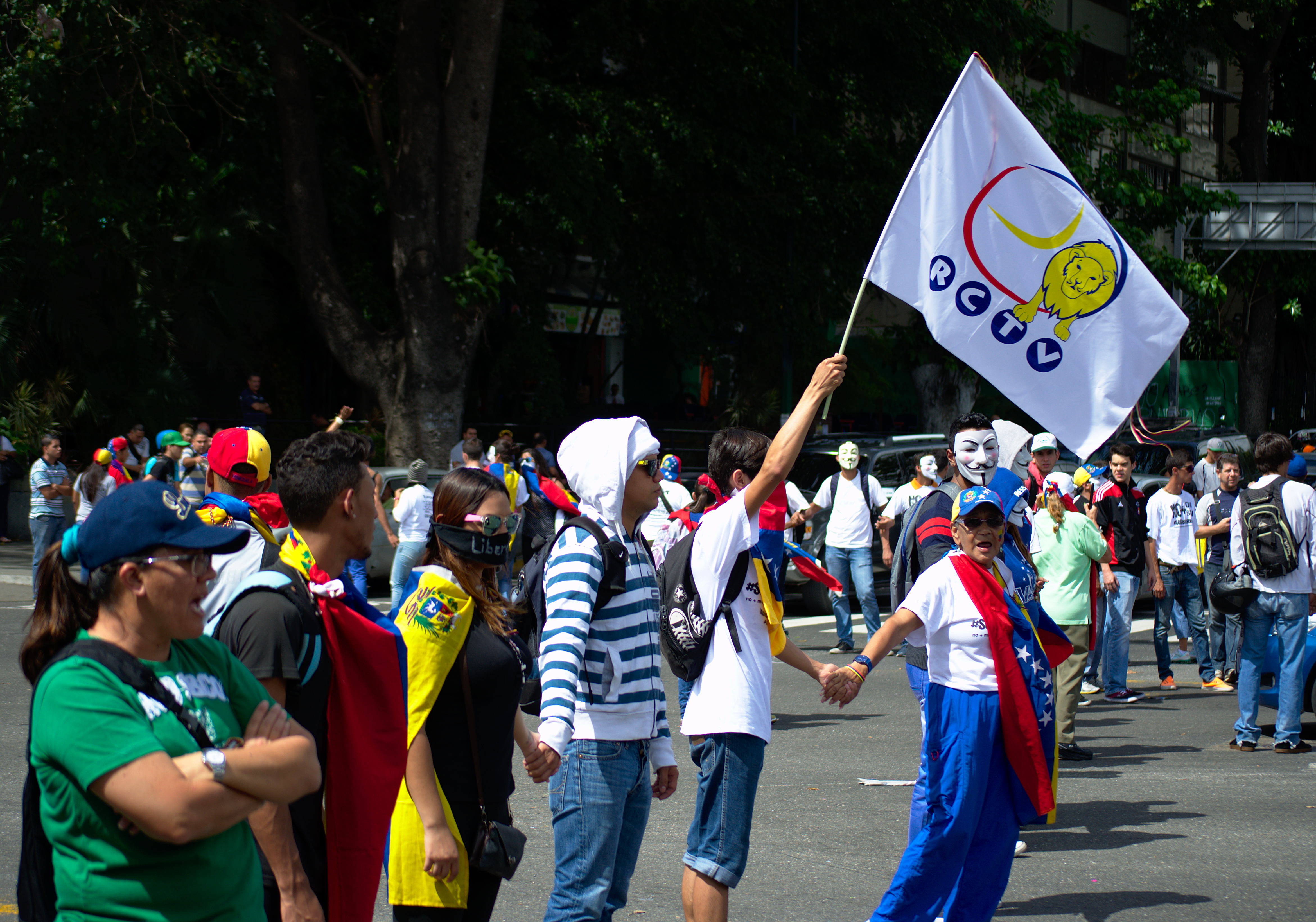 Protesters gathered at Altamira Square on 23 November.